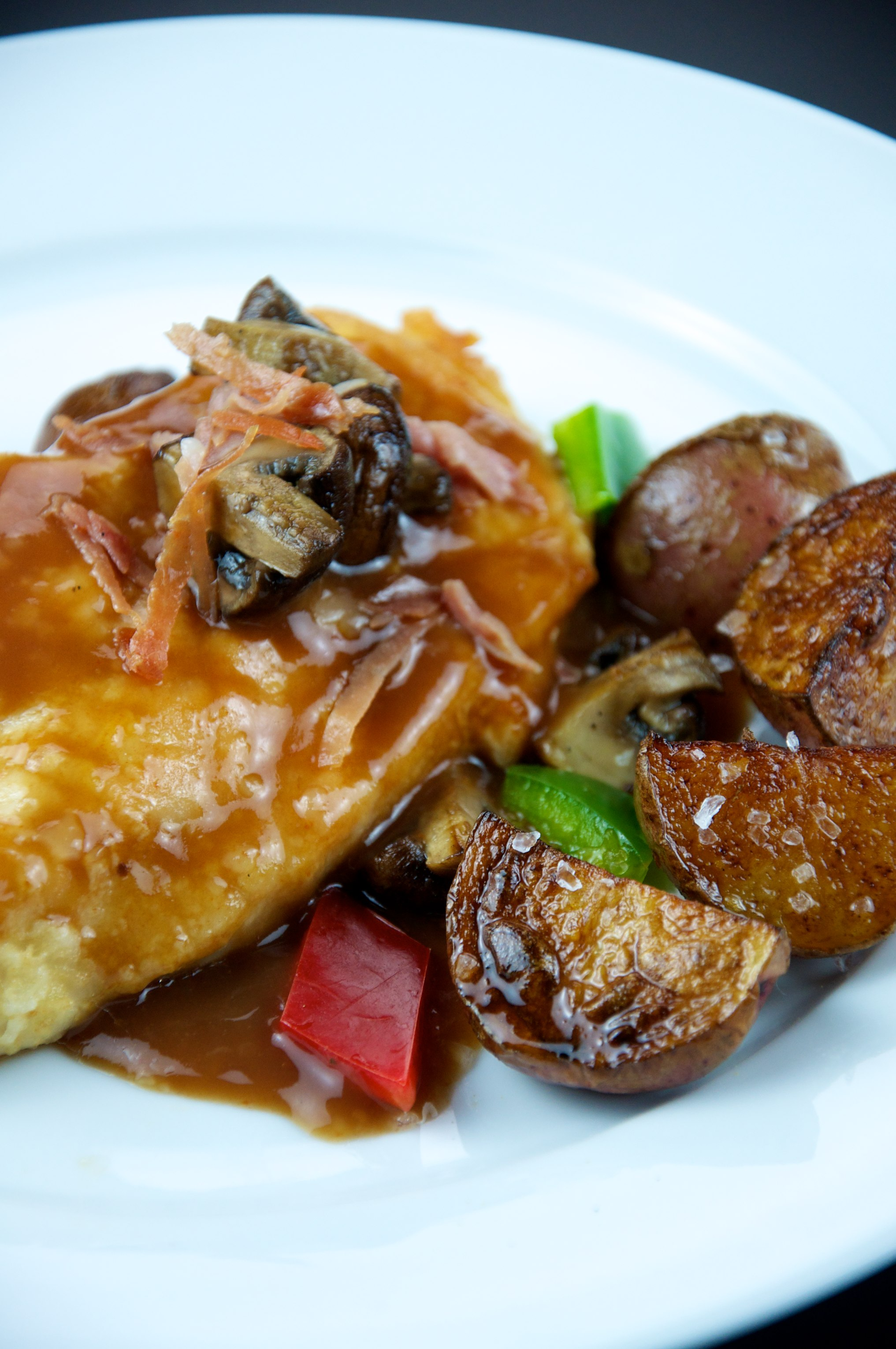 Chicken marsala made with quartered Cremini mushrooms, red potatoes, red and green bell peppers, and pancetta. Photographed in the Upper Dimond neighborhood of Oakland, California, USA.